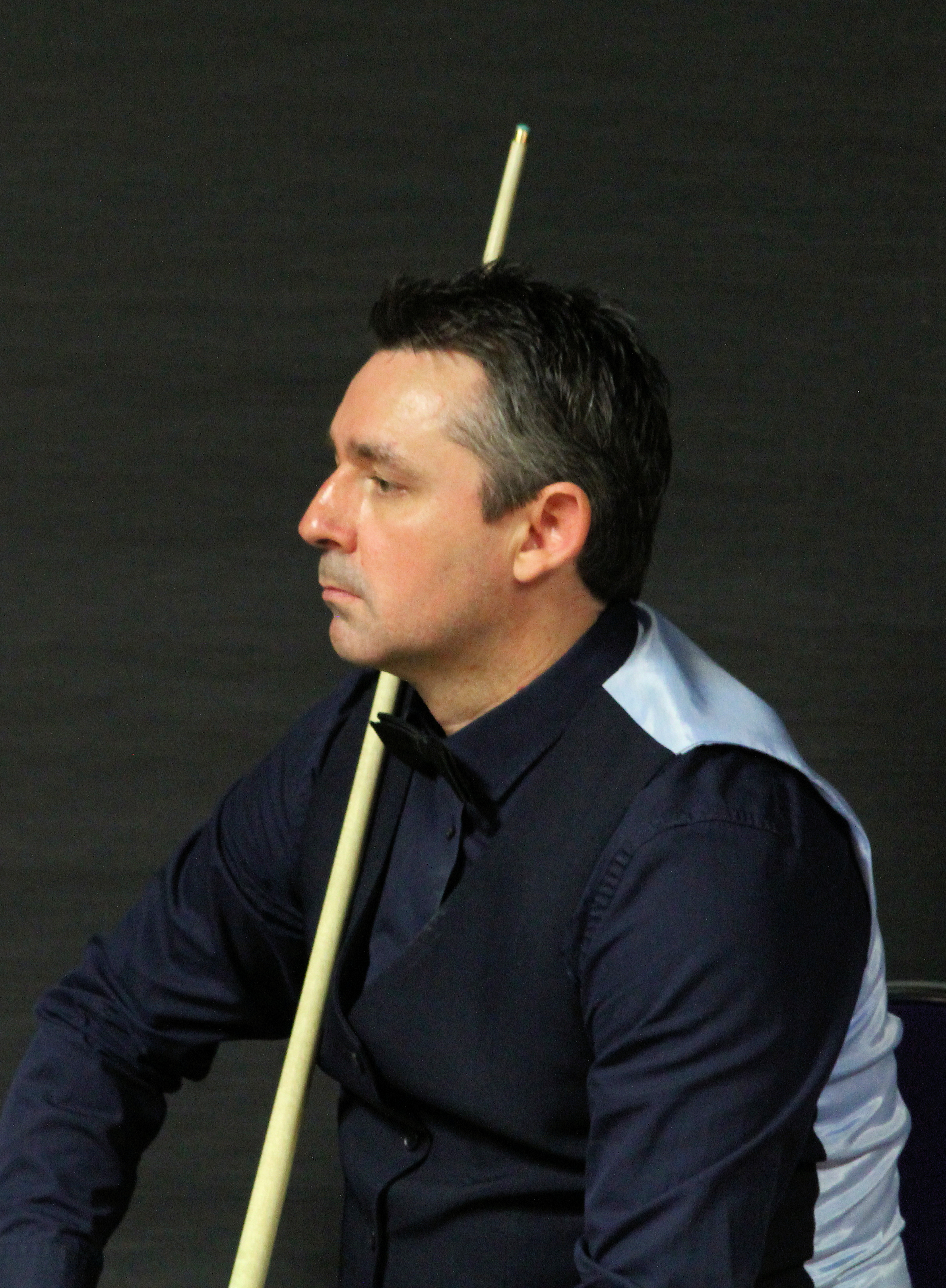 Alan McManus at the Paul Hunter Classic 2017